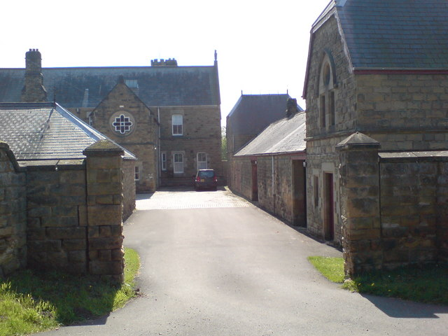 Upsall Castle is a fourteenth century ruin, park and manor house in Upsall, in the Hambleton district of North Yorkshire, England.